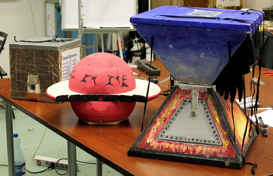 Three nacelles (left-to-right: Jarowit-Jaryło [launch: 30.06.2013], Świtezianka [launch: 15.09.2013], Strzybóg [launch: 2.07.2014]) of the 'Światowid' ('Worldseer') stratosphere flight programme of the Students' Space Association, Balloon Division (Warsaw University Of Technology).